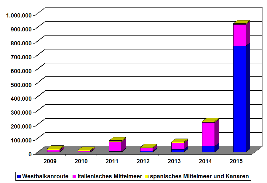 Main migratory routes into the EU / land & sea.